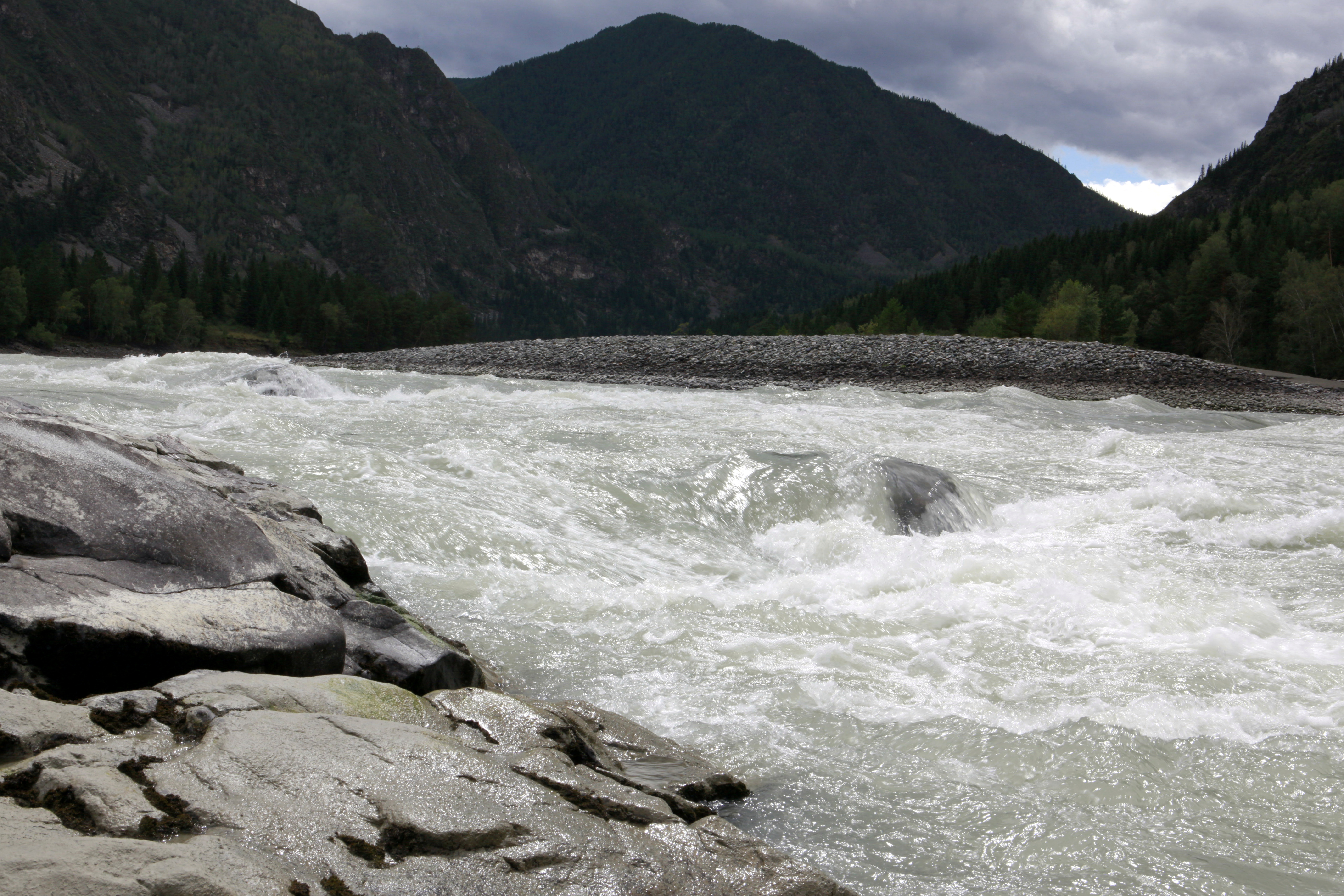 The Shabash rapid on Katun River, 4th category (Altai Republic, Russia, August 2013)